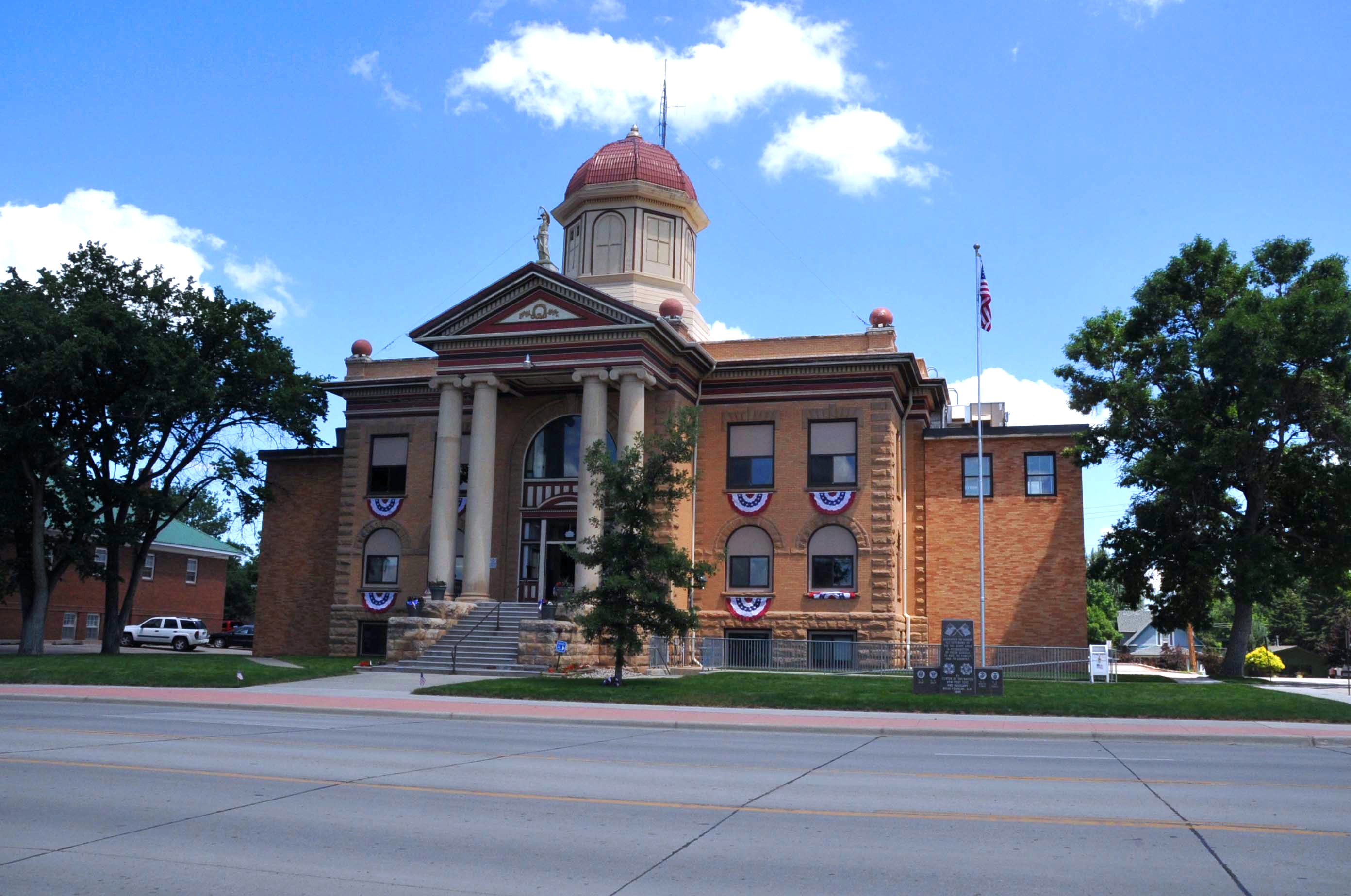 1901; BEAUX ARTS AND CLASSICAL ARCHITECTURE